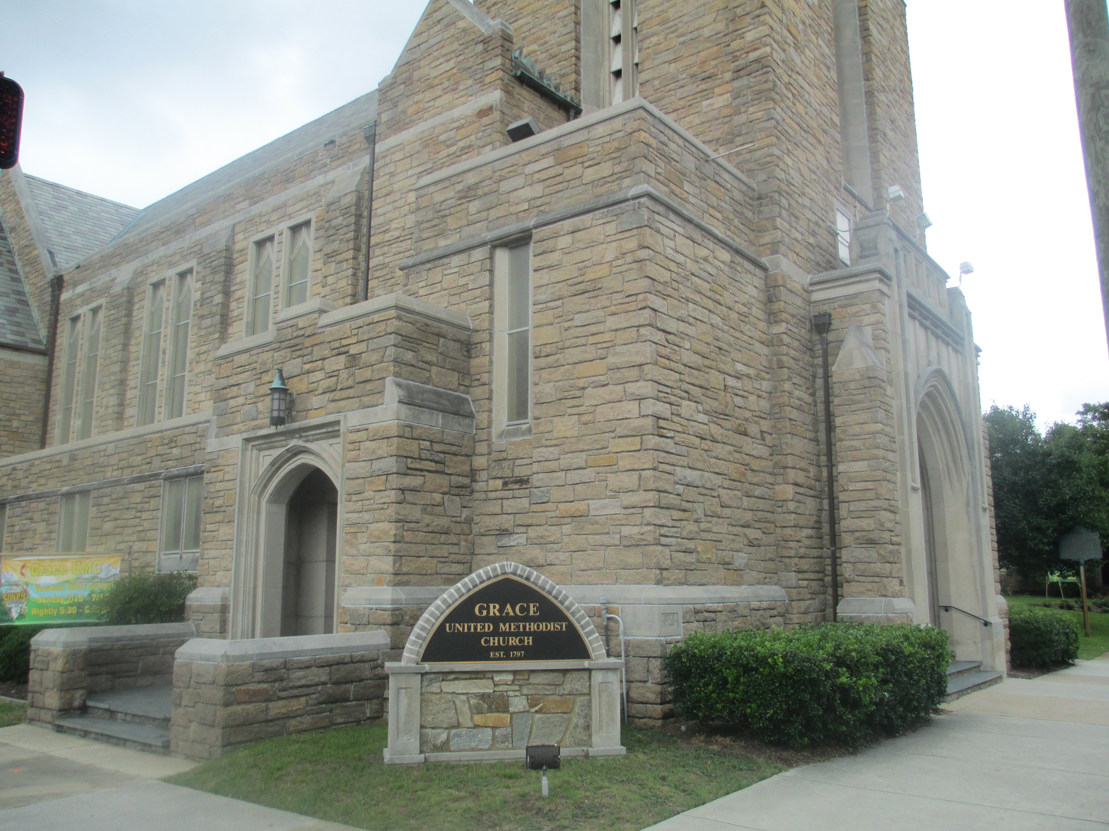 I took photo of Grace United Methodist Church (1797) in Wilmington, NC, with Canon camera.